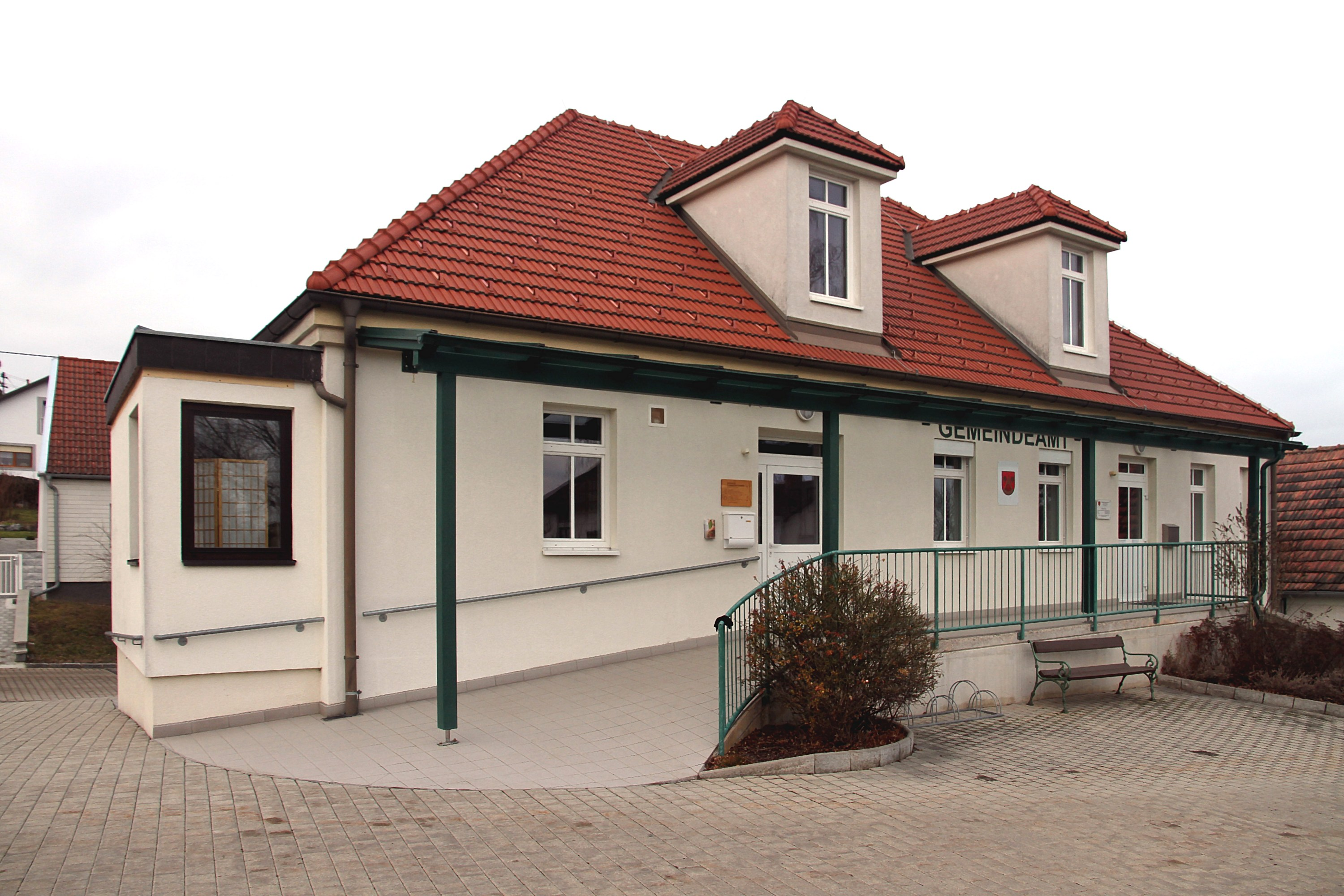 Oberloisdorf - municipal office